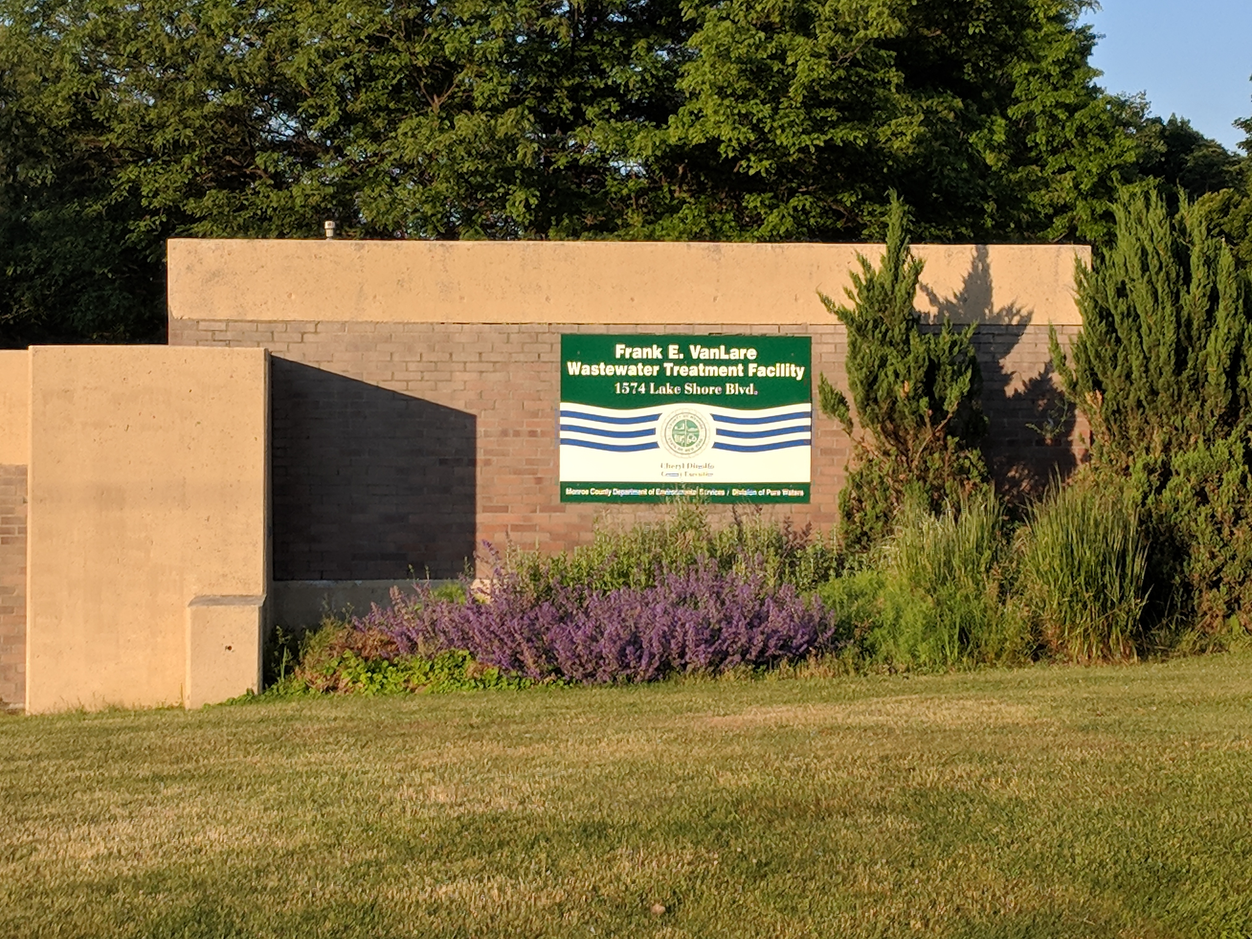 Brick wall at the entrance to the Frank E. Van Lare wastewater treatment plant entrance in Rochester, New York.